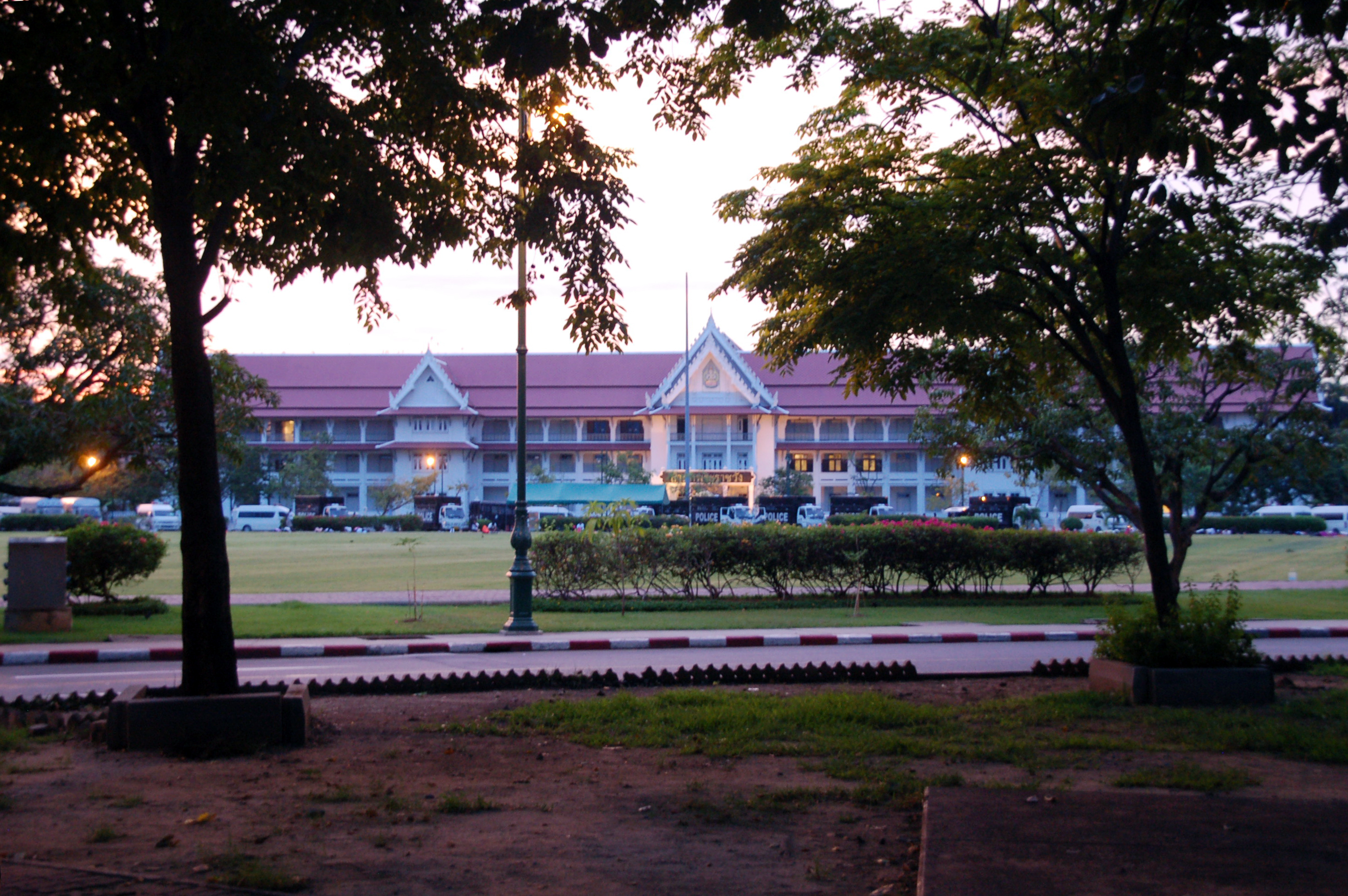 Sanam Sua Pa, Royal Plaza, Dusit palace 13°46′06″N 100°30′51″E / 13.768429°N 100.514039°E